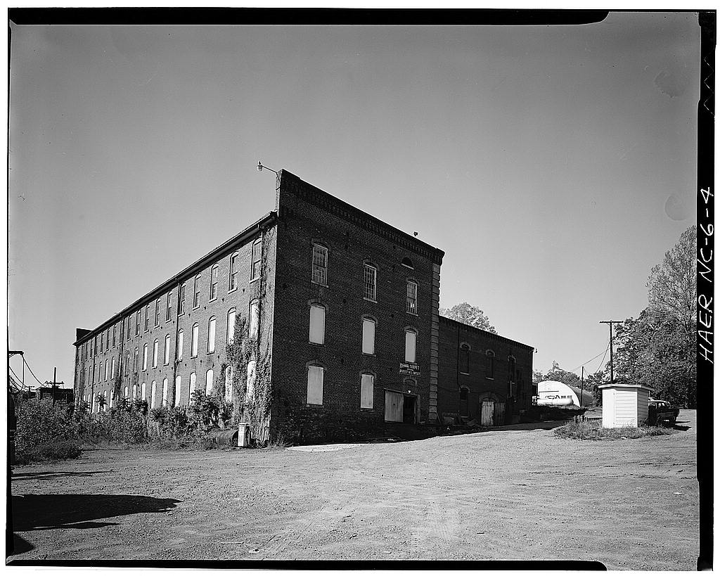 Overall exterior view (from southeast) of Glencoe Cotton Mills, State Routes 1598 & 1600, Glencoe, Alamance County, North Carolina. Historic American Buildings Survey, Library of Congress, Washington, D. C.